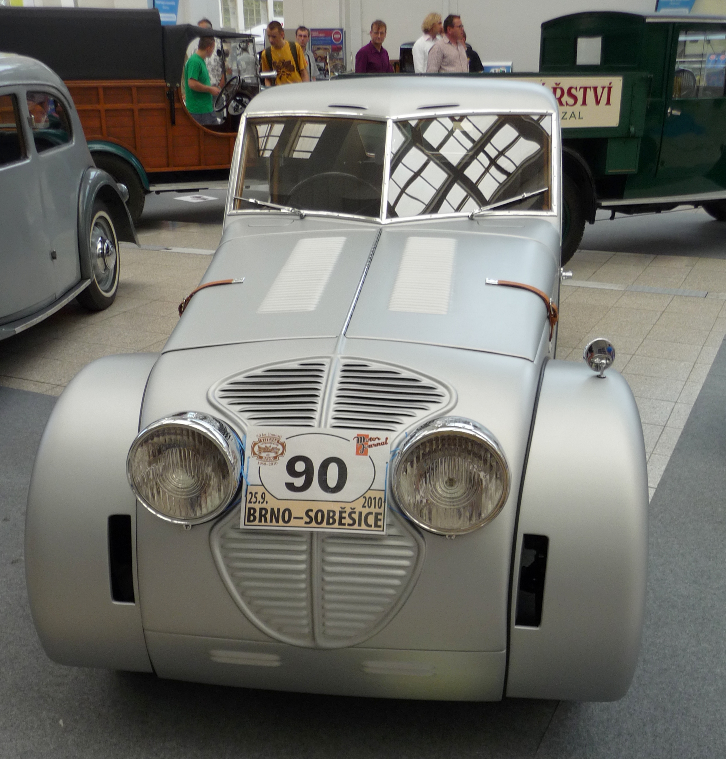 Zbrojovka Z 4 "1000 mil Československých" rallye special with aluminium body, year 1934, Classic Show Brno 2011, The Brno Exhibition Grounds -10 -5 -3 -2 ◄ ► +2 +3 +5 +10